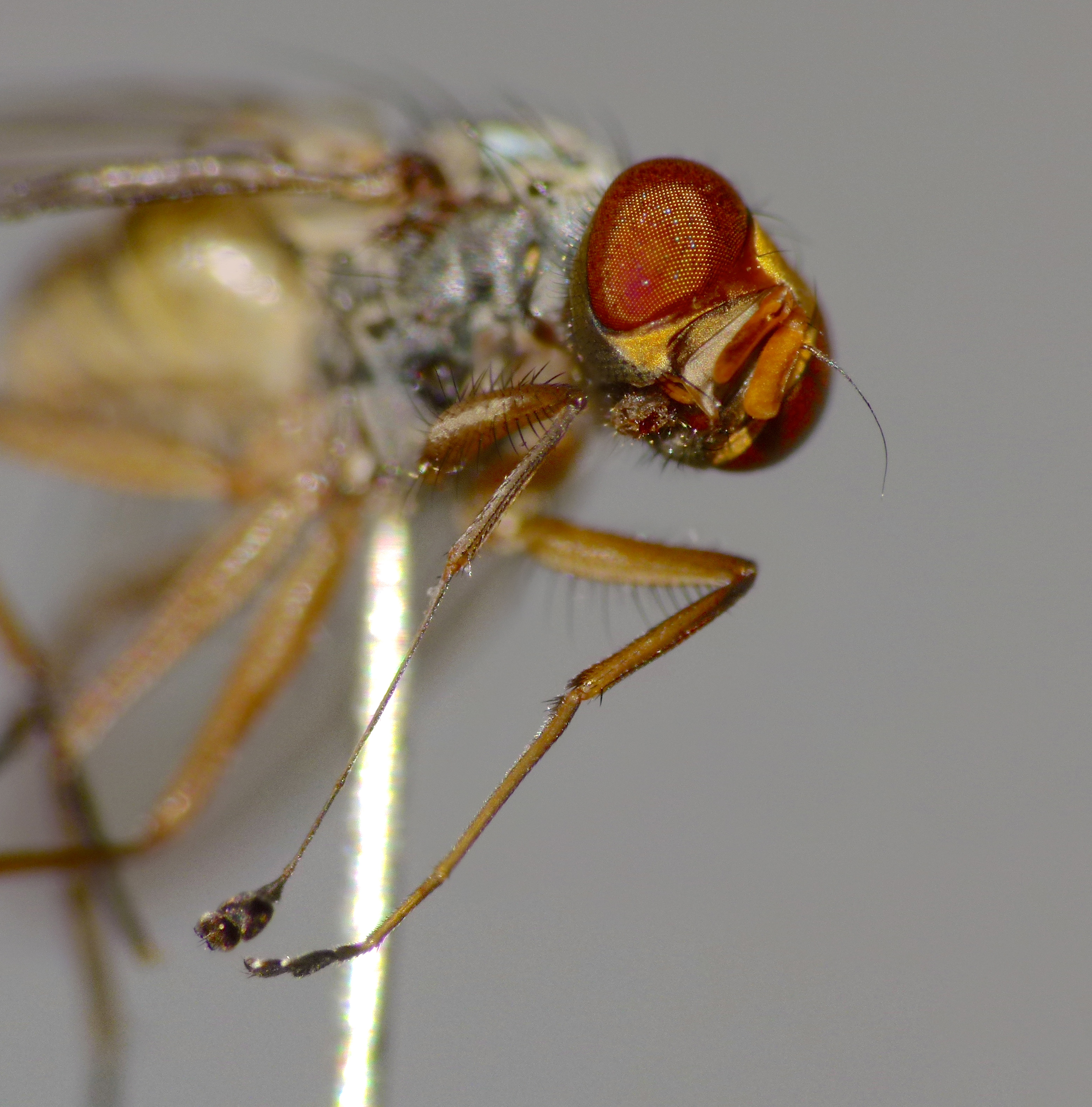 Several male flies on trunk of Tree Fuschia (mid-day in broadleaf forest; approx. altitude 450 meters).